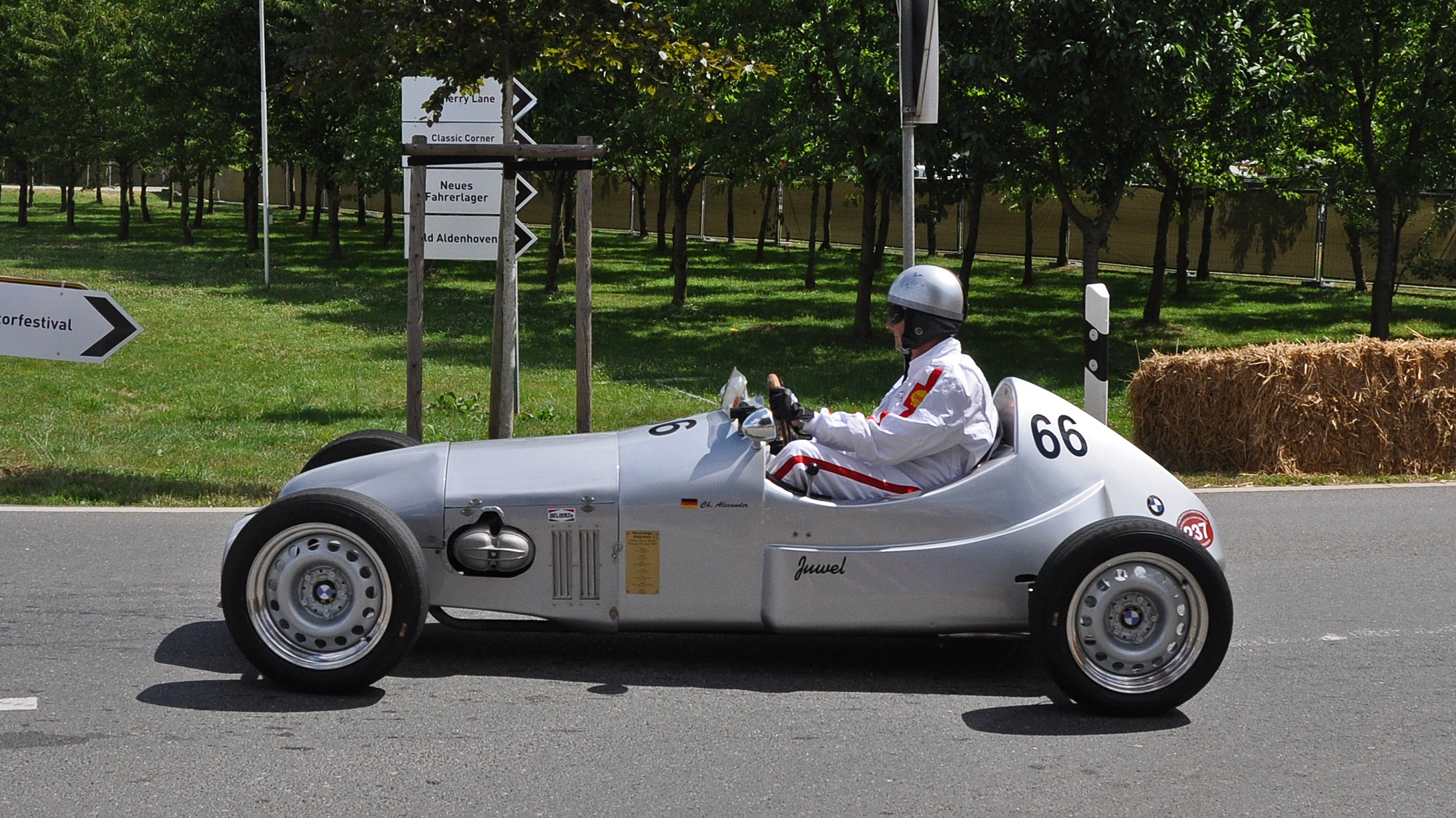 LTE-BMW Juwel Formel 3 (1949)) at the Classic Days Schloß Dyck